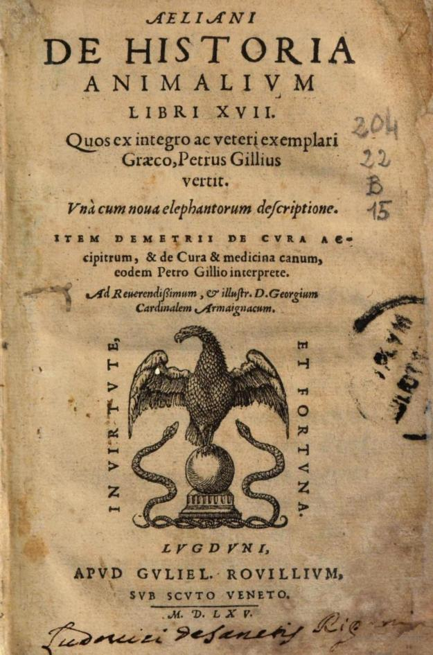 Petrus Gyllius, translation of Aelian, 1565, title page